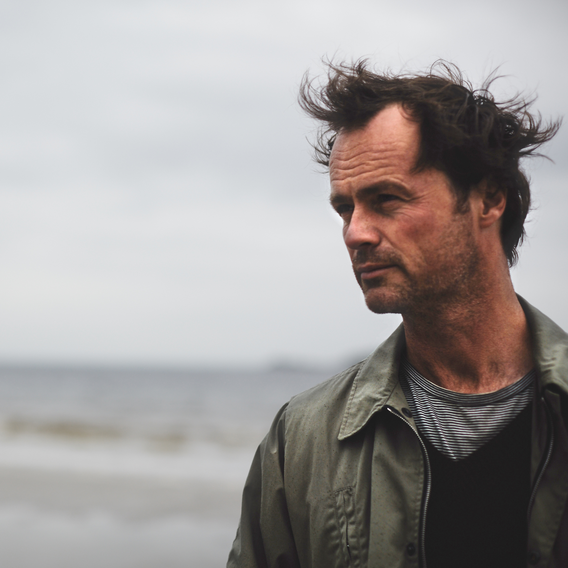 Hugh Carswell who lives and works on the Isle of Jura, Scotland, during the recording of the I'Anson album In Chances of Light.